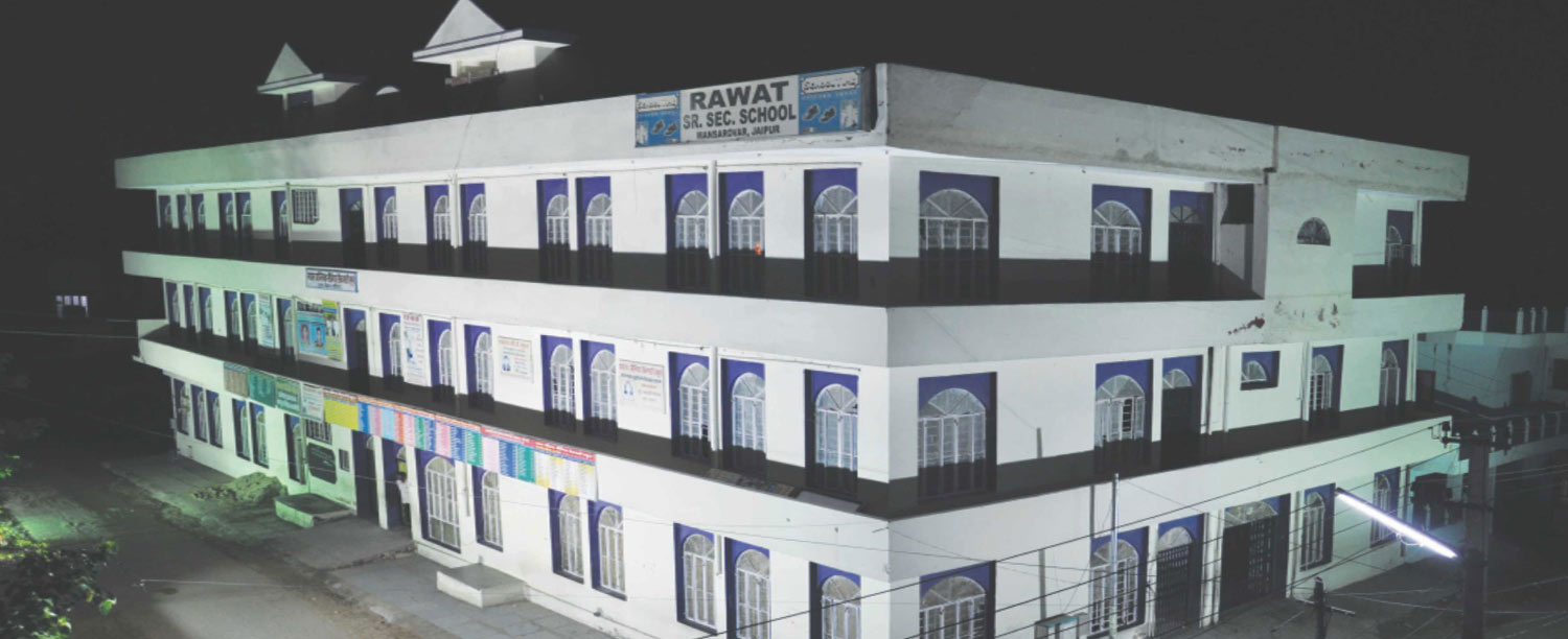 Campus of Rawat Public Senior Secondary School, Jaipur